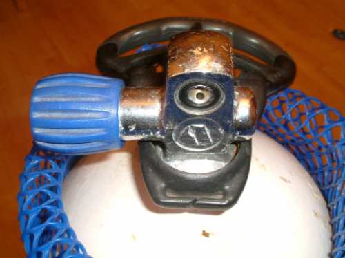 Diving cylinder A clamp